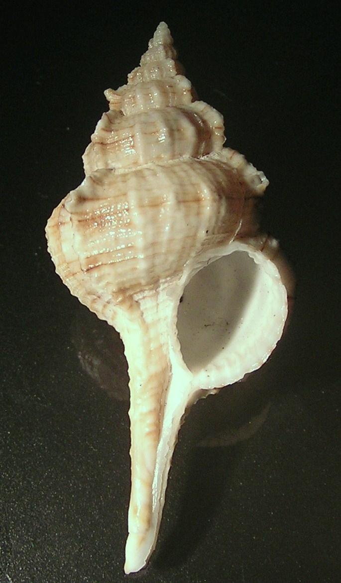 Siratus ciboney (Clench & Perez Farfante, 1945) , a murex snail from the family Muricidae; South China Sea